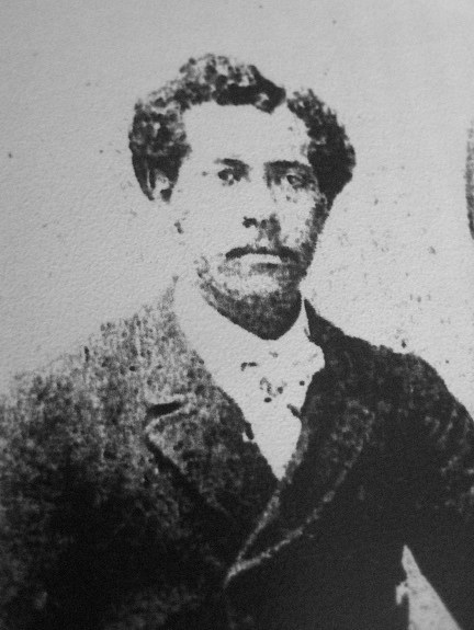 Robert Kameeiamoku Parker Waipa (May 15, 1856 – June 6, 1937) was a Royal Guard and Colonel of the Kingdom of HawaiiI. He was the son of Chief Kameeiamoku Waipa and Mary Ann Kaulalani Parker.